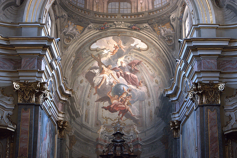 Apse of the church of "Santissima Trinità" in Crema, Italy